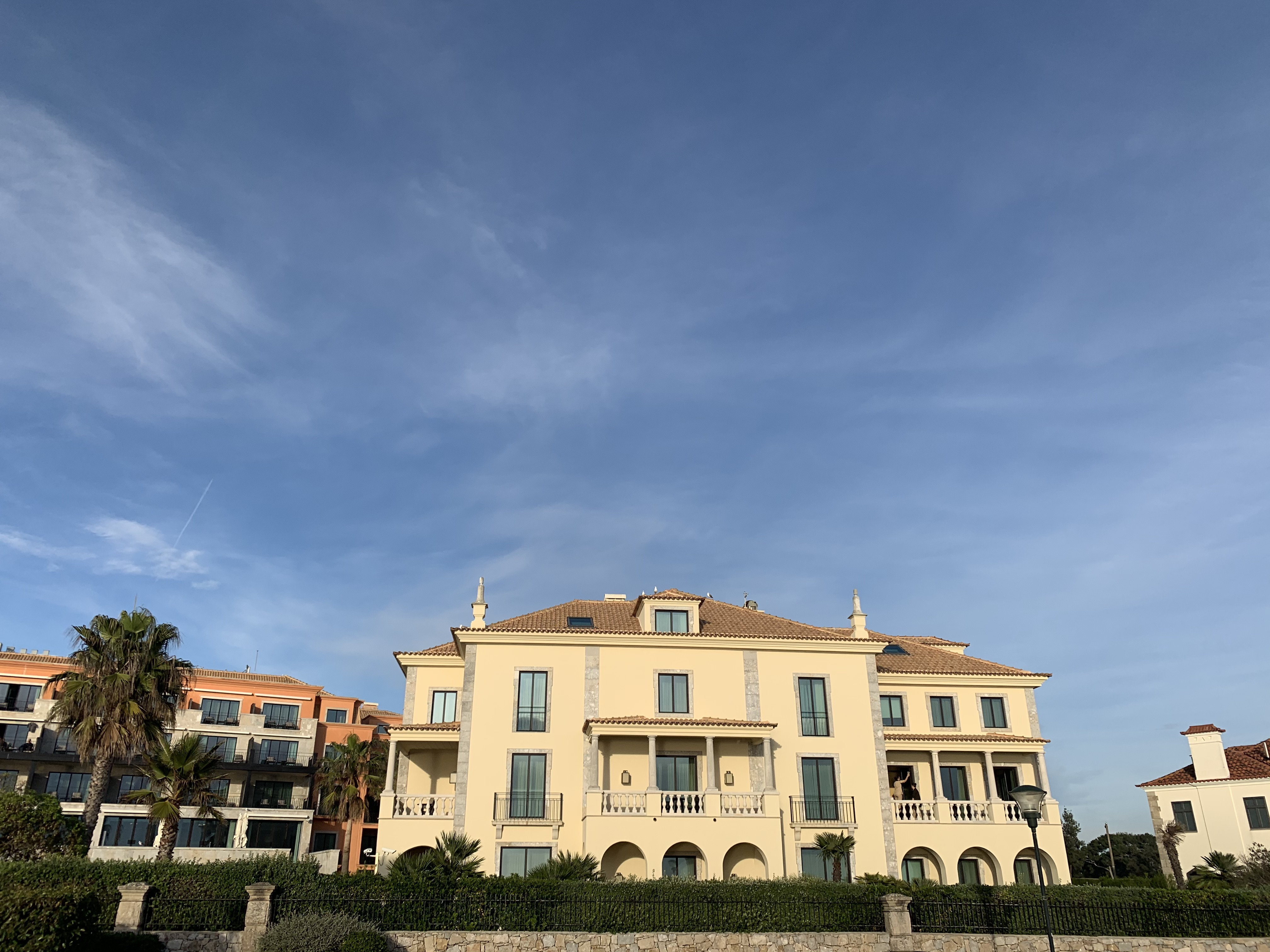 Villa Italia on a sunny day in Cascais, Portugal. This was once the abode of the last King of Italy for four decades. It is now converted into a hotel and SPA.